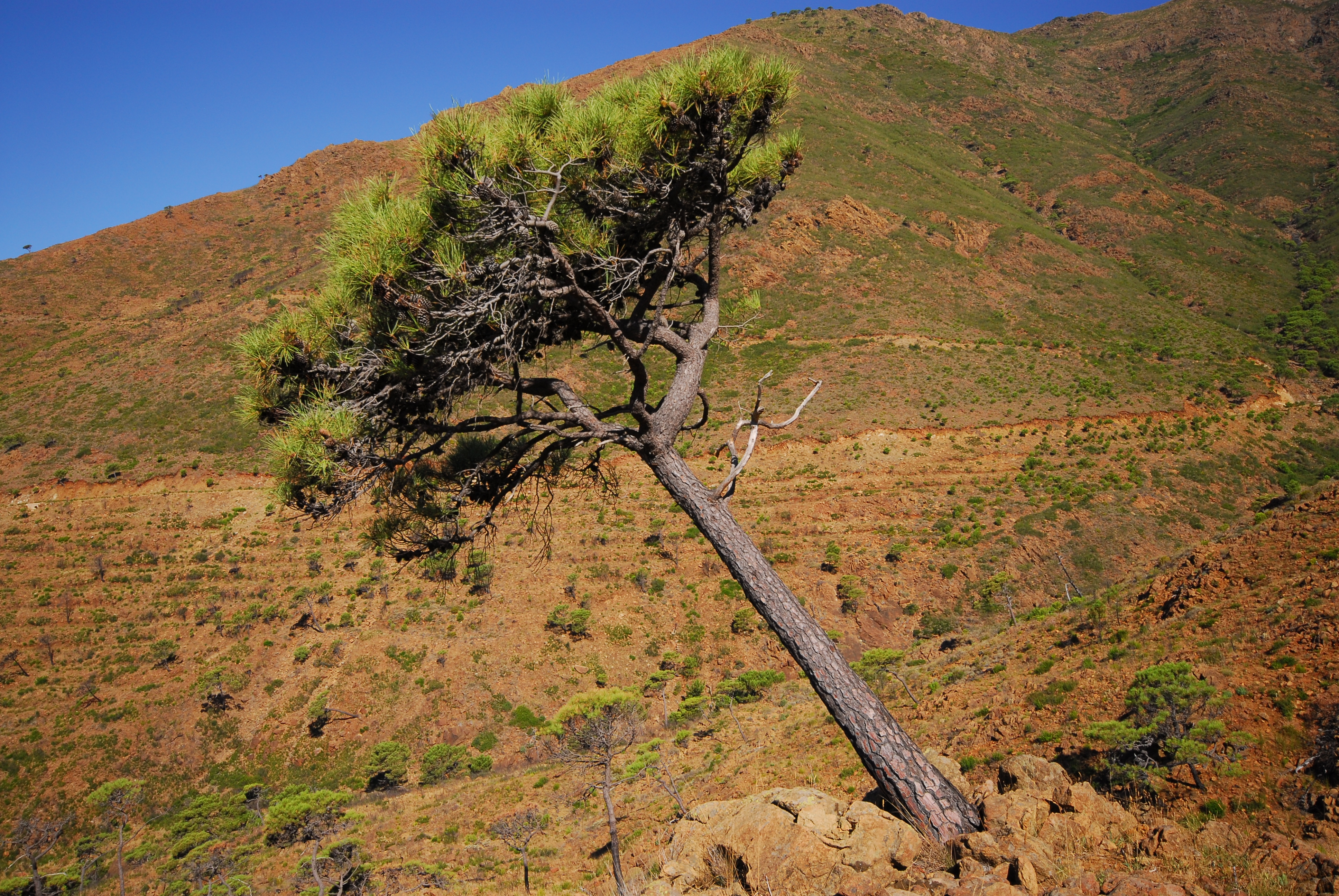 Pinus pinaster, Sierra Bermeja, Spain.